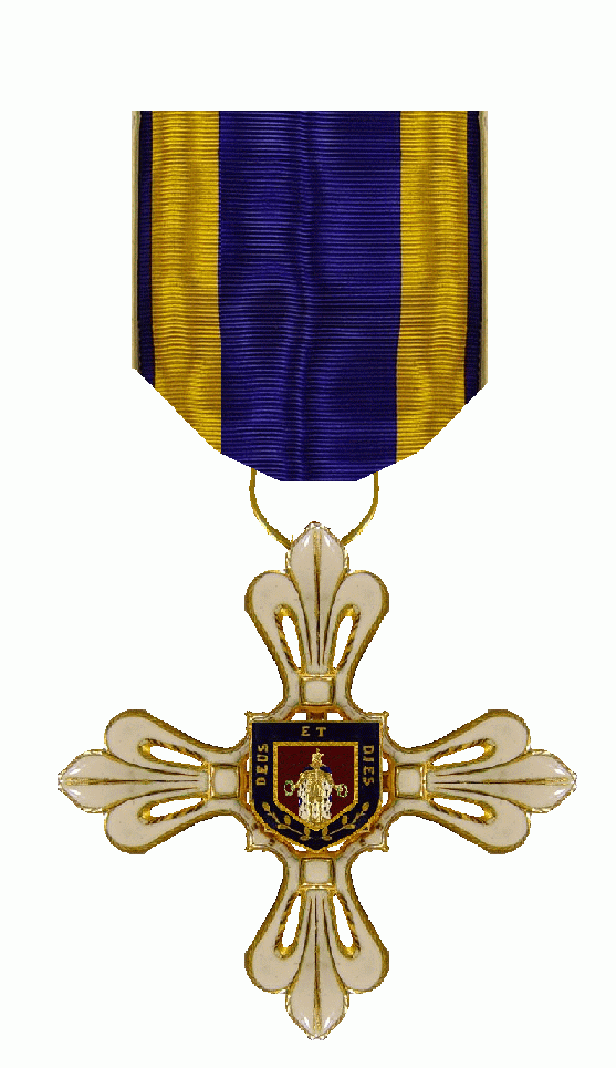 Ordine del Merito di San Lodovico Order of Saint Luis Parma